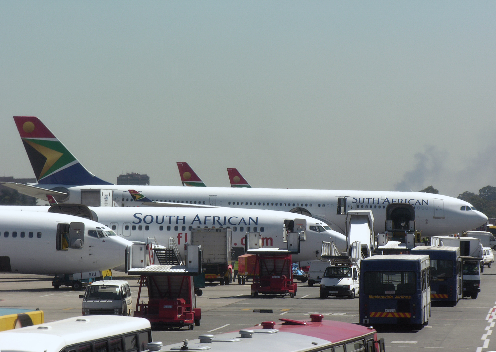 South Africa, Another busy day at OR Tambo